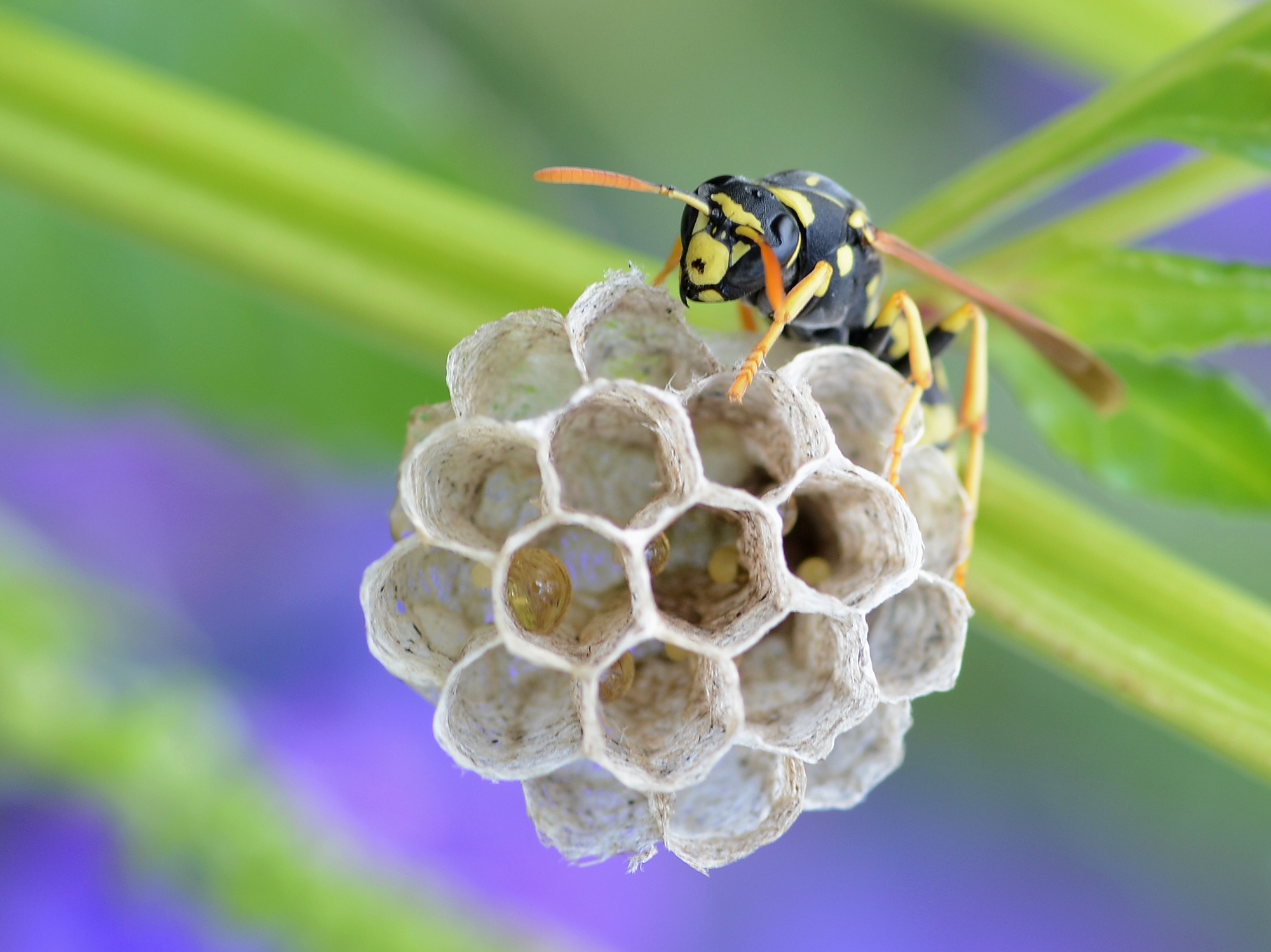 Young paper wasp queen guarding her nest and eggs.